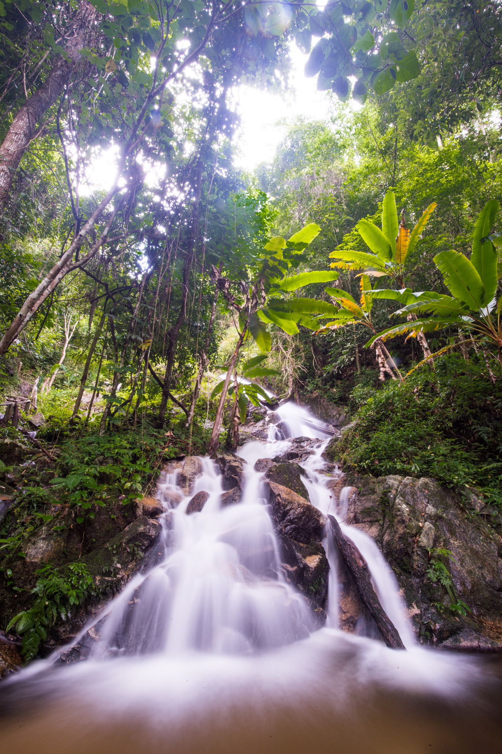 The village with older than 100 years old in Mae On district, Chiang Mai province, it’s 50 kilometers away from the city. The village is in valley which is cold all year round and there is a beautiful Maekampong waterfall in the village.